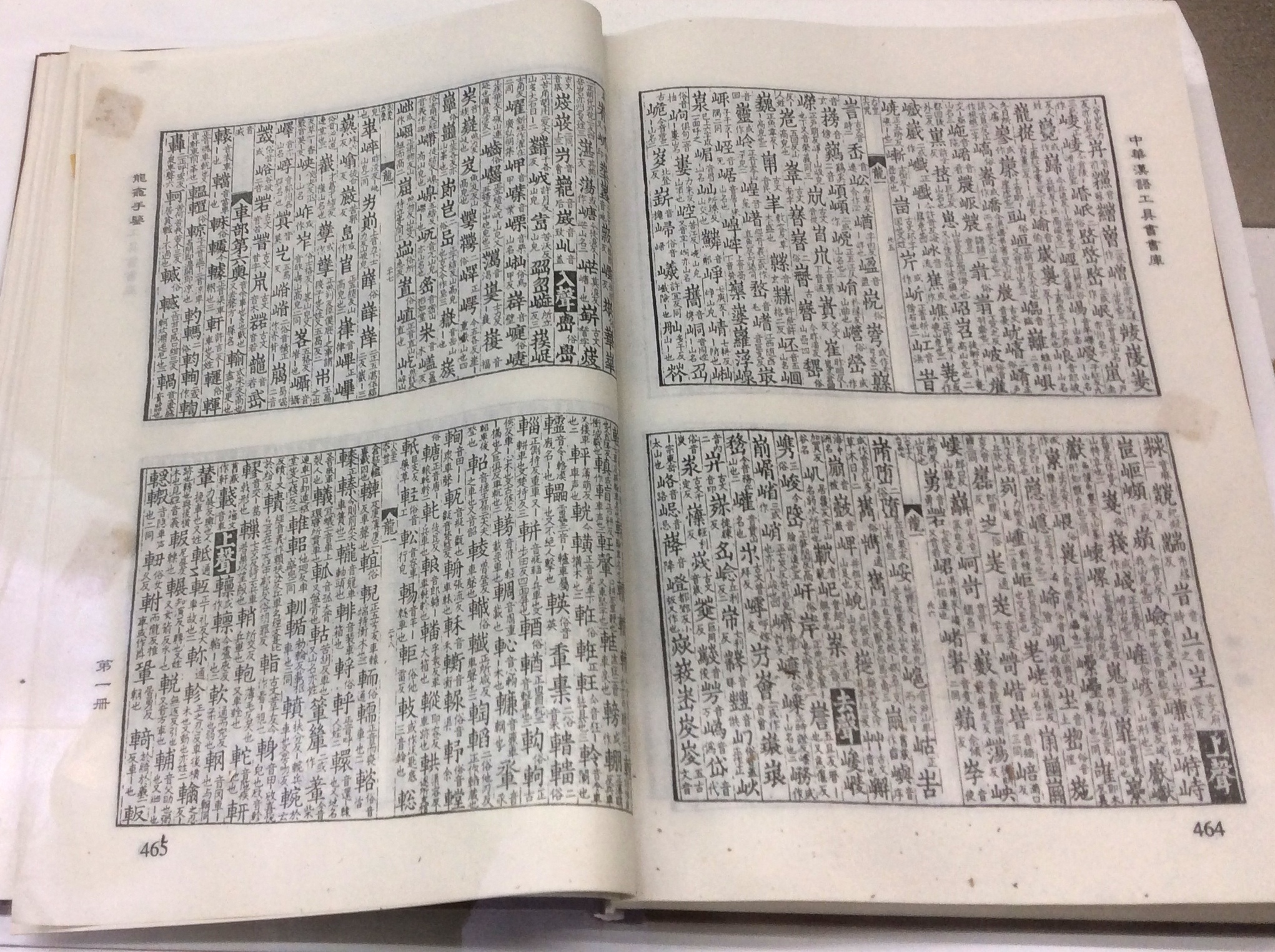 Longkan Shoujian (龍龕手鑑) exhibit in the Chinese Dictionary Museum, on the grounds of Huangcheng Xiangfu